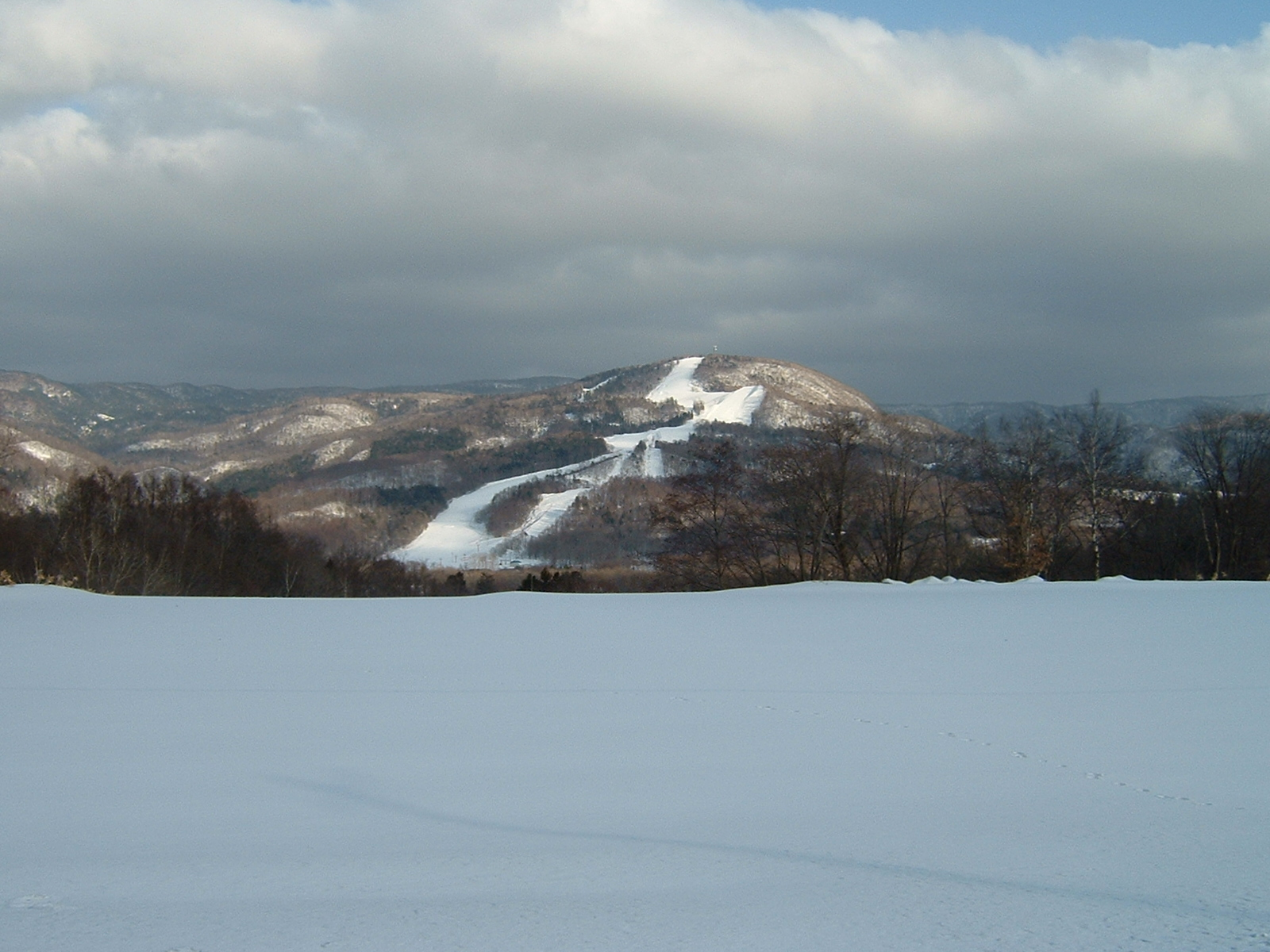 Hidaka International ski aria in Hidaka town, Hokkaidō, Japan